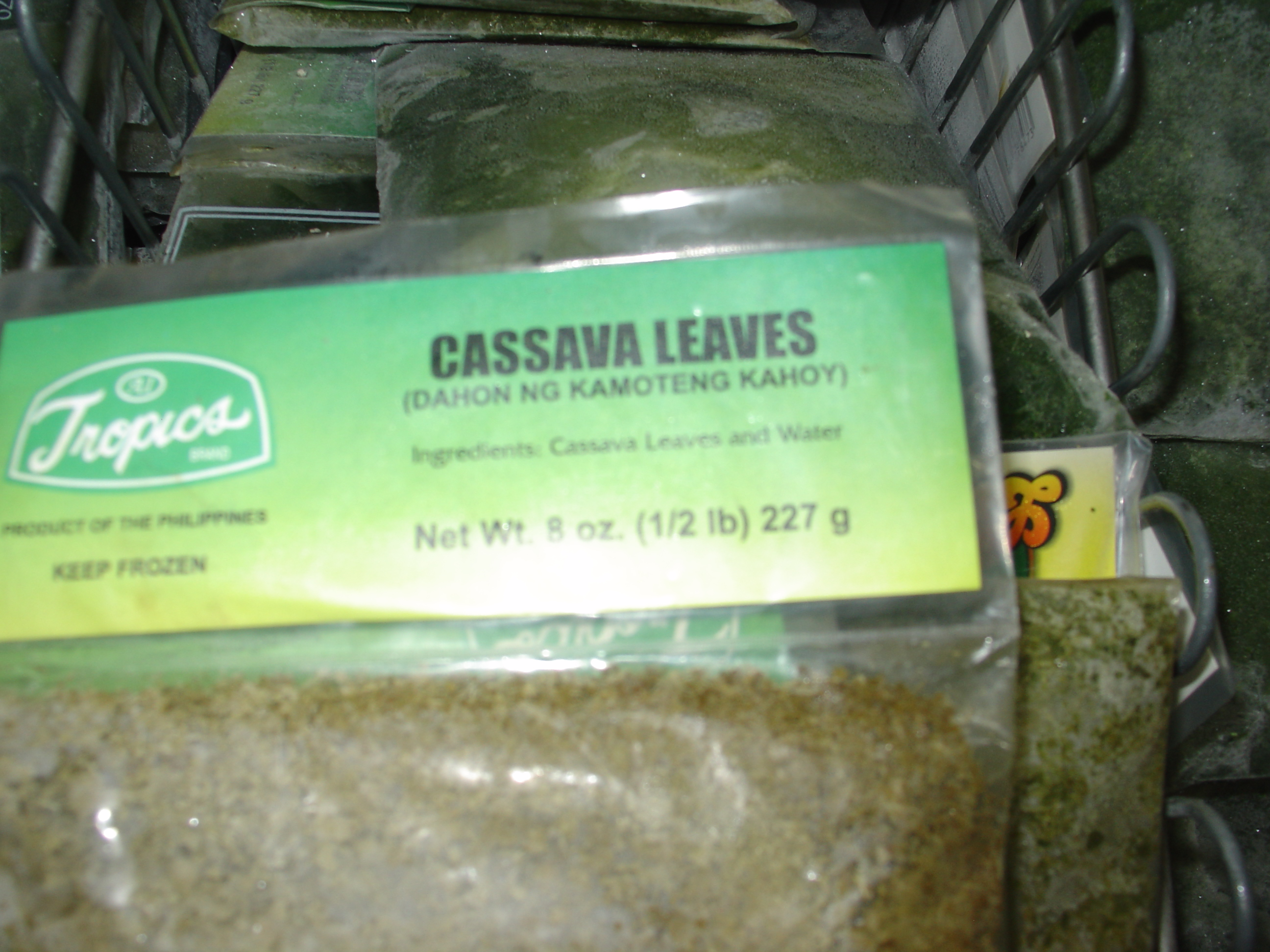 Frozen cassava leaves from the Philippines sold at a Los Angeles market (2009).